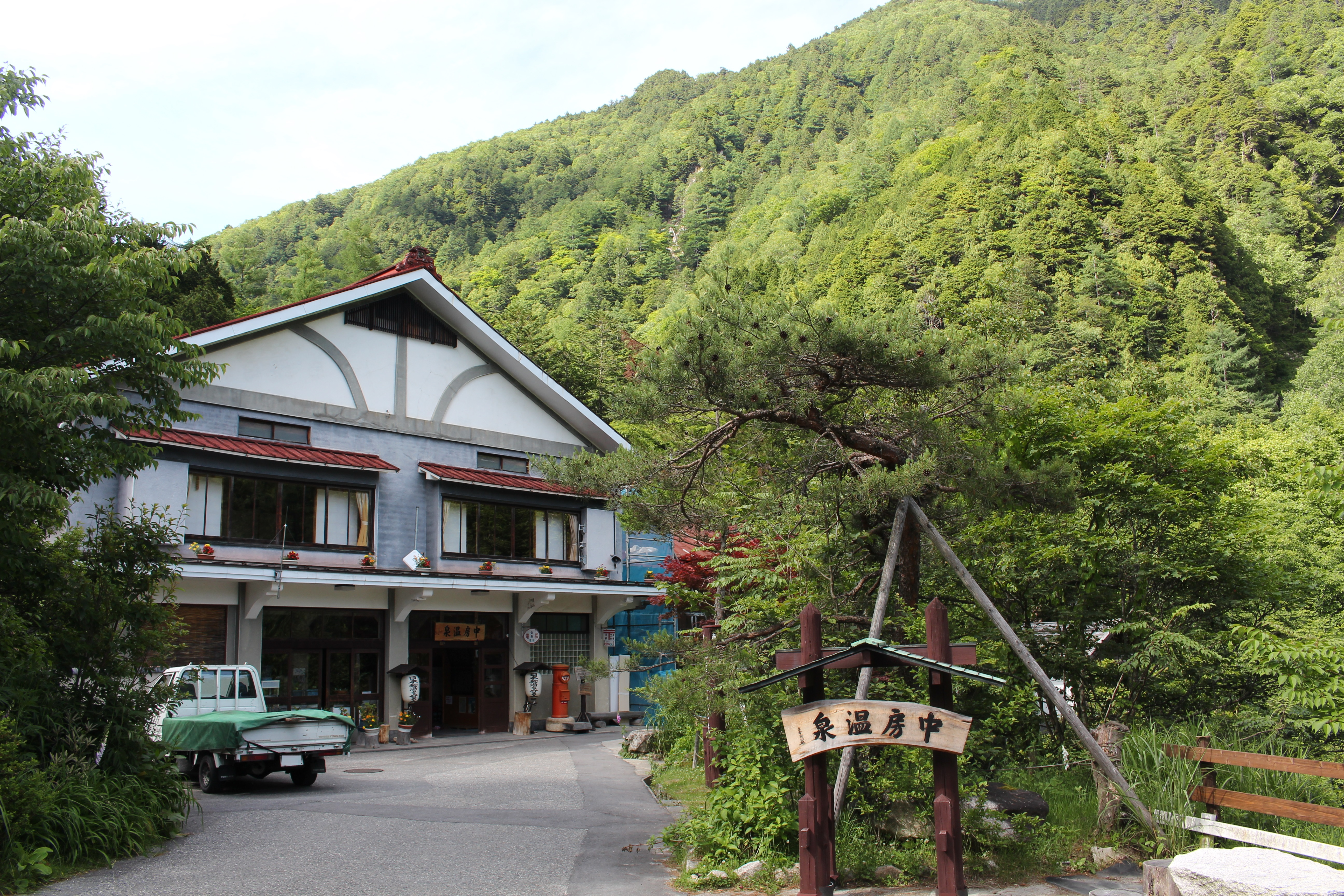 Nakabusa Onsen, in Azumino, Nagano prefecture, Japan.